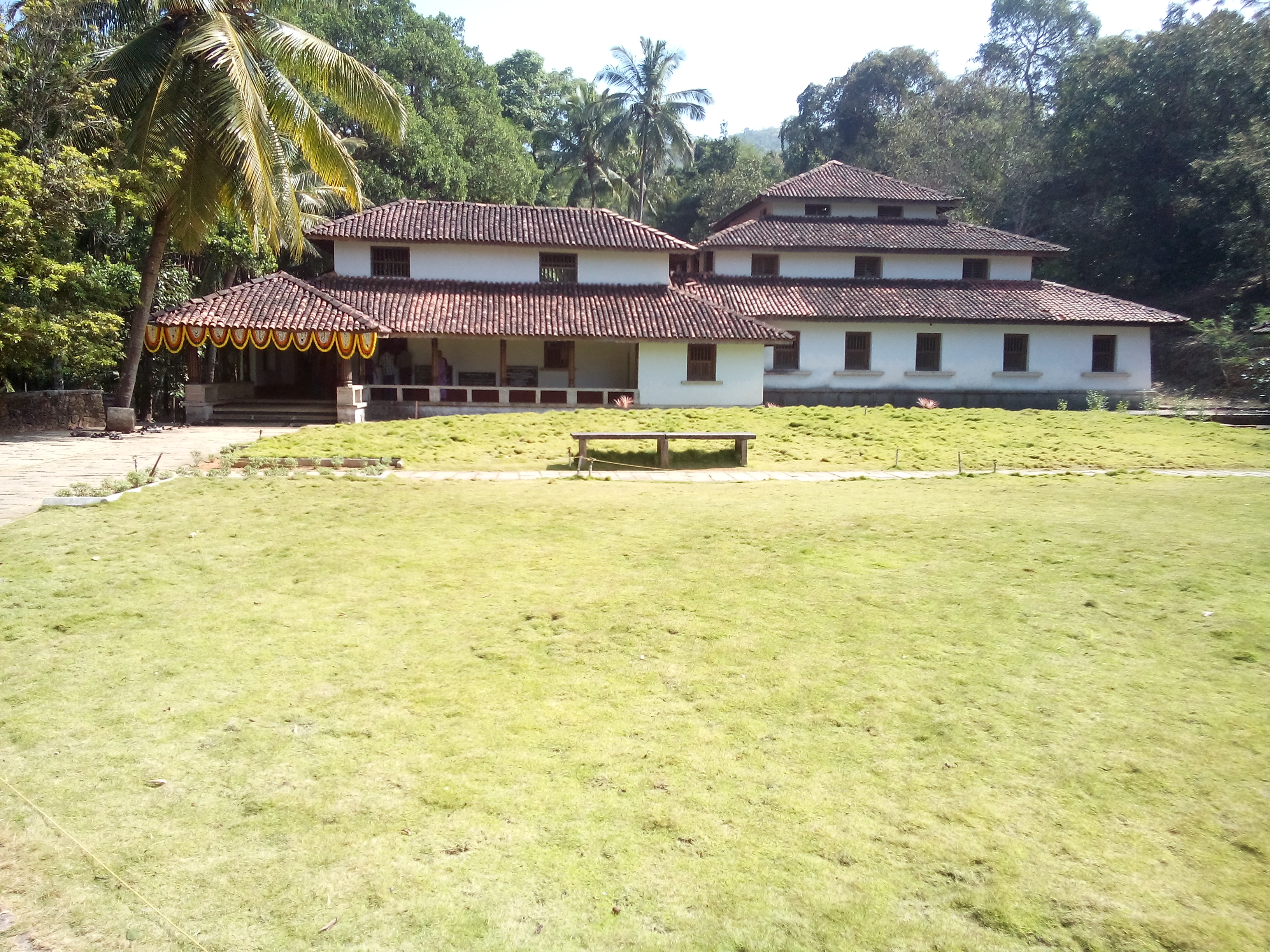 kavi mane